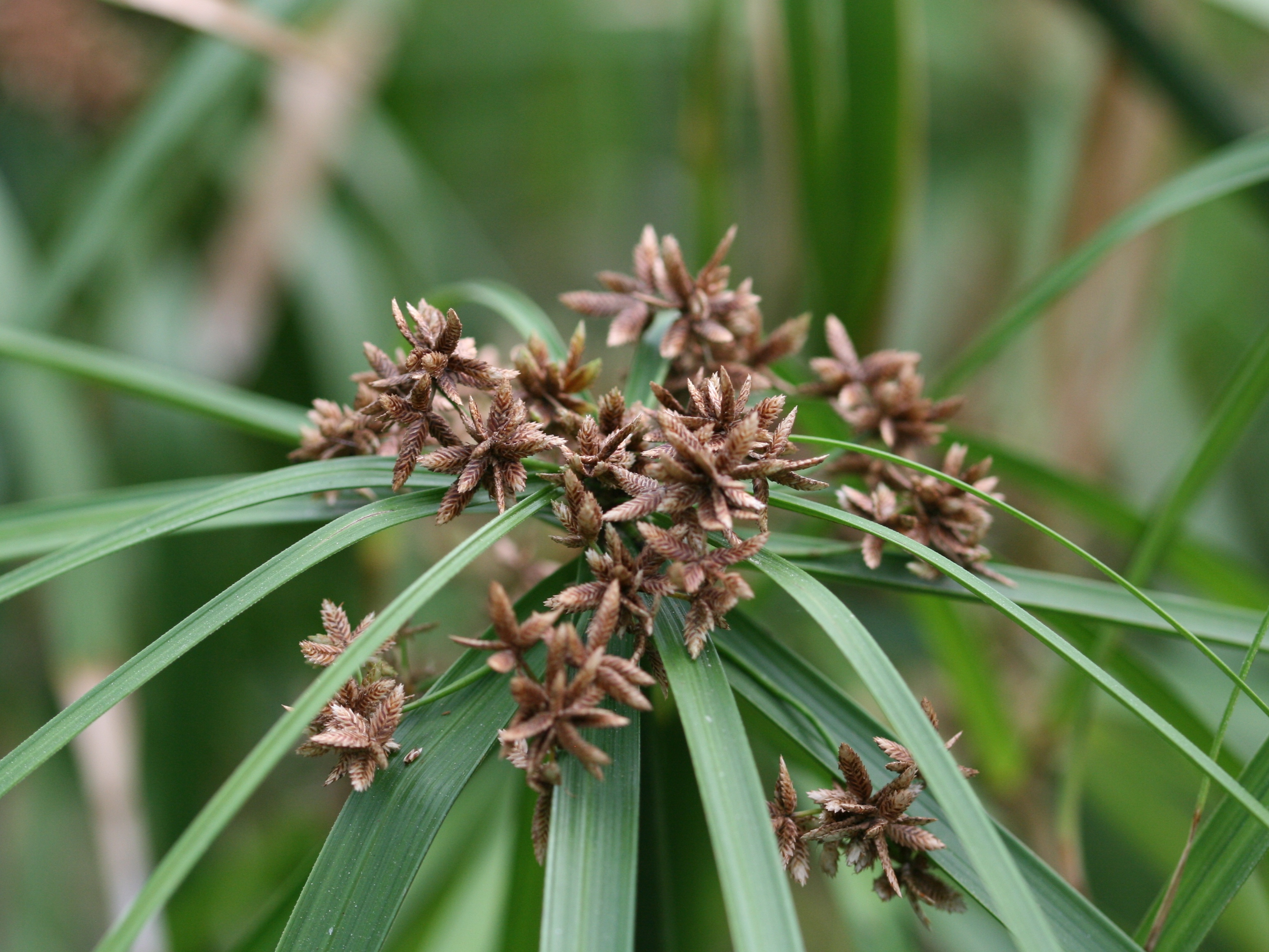 Cyperus alternifolius, Landscape plants of the UAE, Monocotyledonous flower